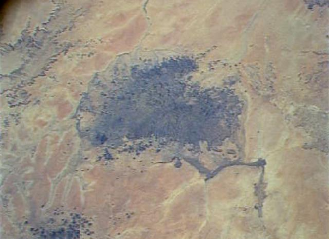 The dark-colored area in the center of this Space Shuttle view is the alkaline Meidob volcanic field in western Sudan. This broad volcanic field covers an area of 5000 sq km with nearly 700 Pliocene-to-Holocene vents. The margins of the field are dominated by basaltic scoria cones and associated lava flows, but trachytic-phonolitic lava domes, tuff rings, and maars, concentrated along the central E-W-trending axis of the volcanic field, are among the youngest features. The latest dated eruptions took place about 5000 years ago.